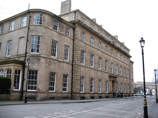 Former Station Hotel